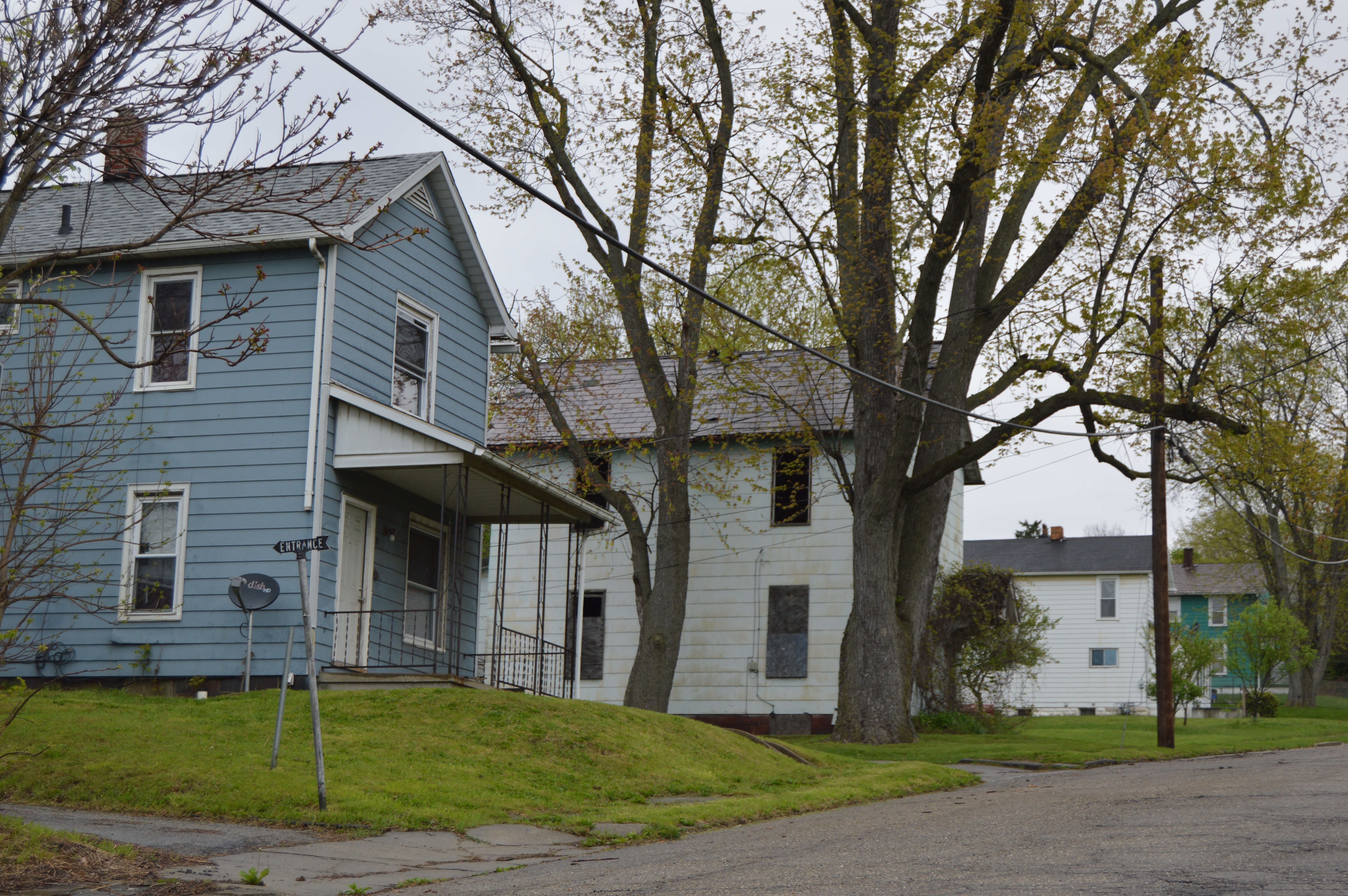 Houses on the western side of Emerson Avenue, north of Broadway Road, in Wheatland, Pennsylvania, United States.